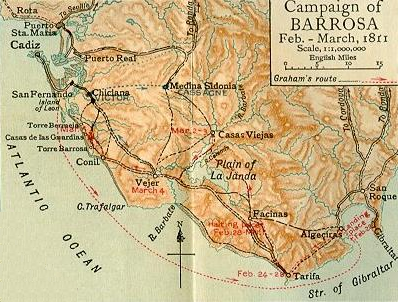 Barrosa campaign map